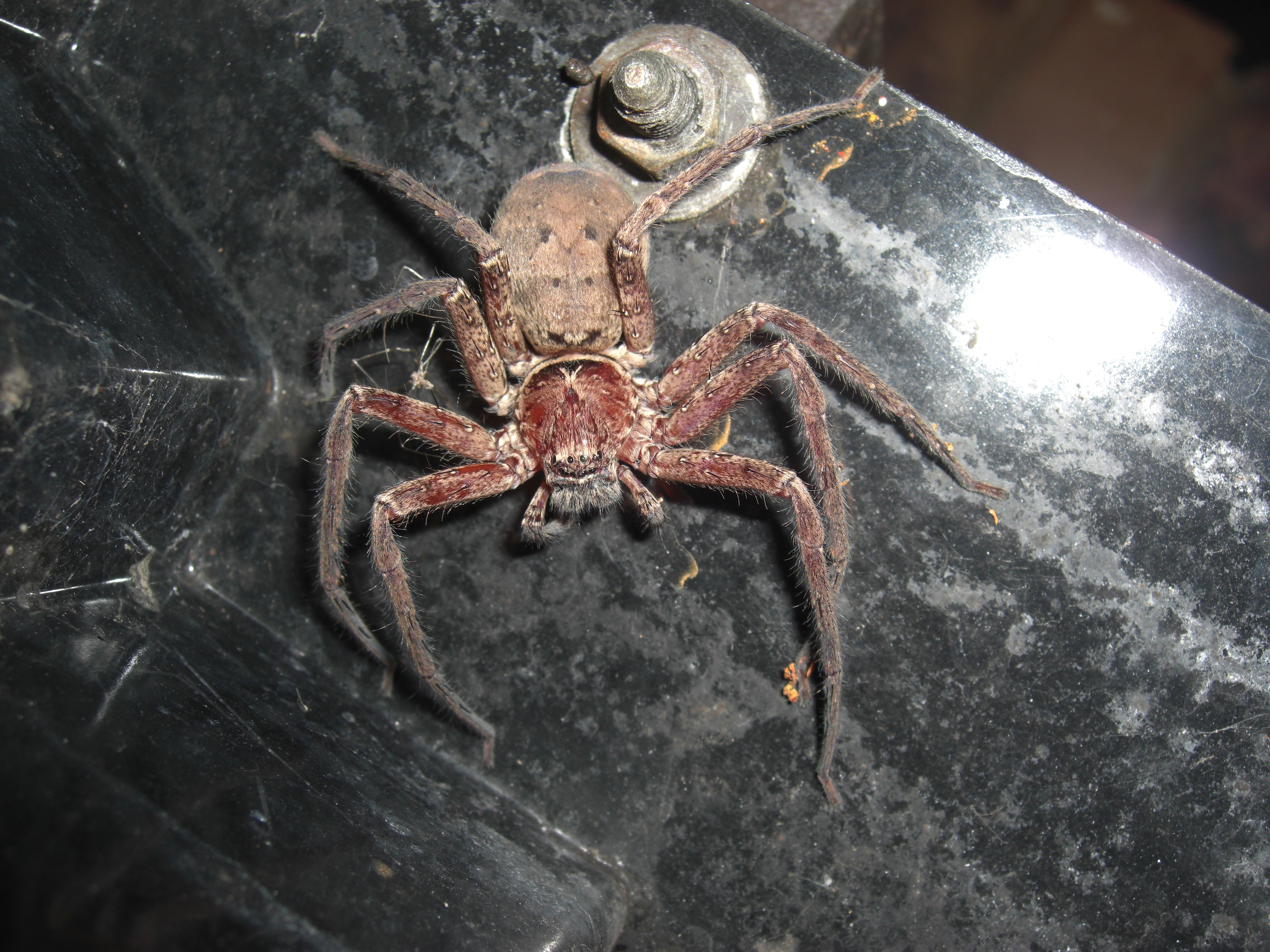 Heteropoda cervina on a barbeque in the Northern Rivers region of NSW, Australia